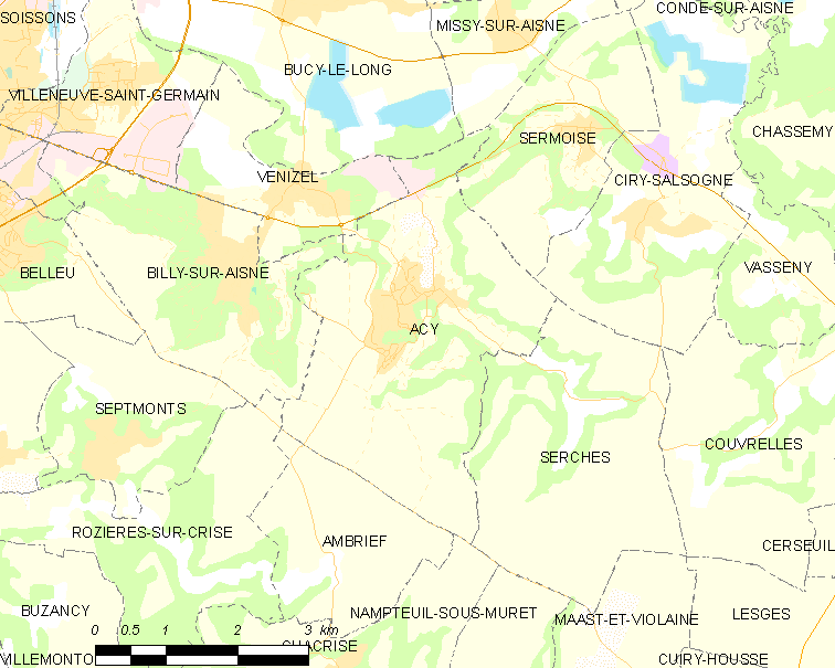 Map of French commune: Acy Map commune FR insee code 02003.png